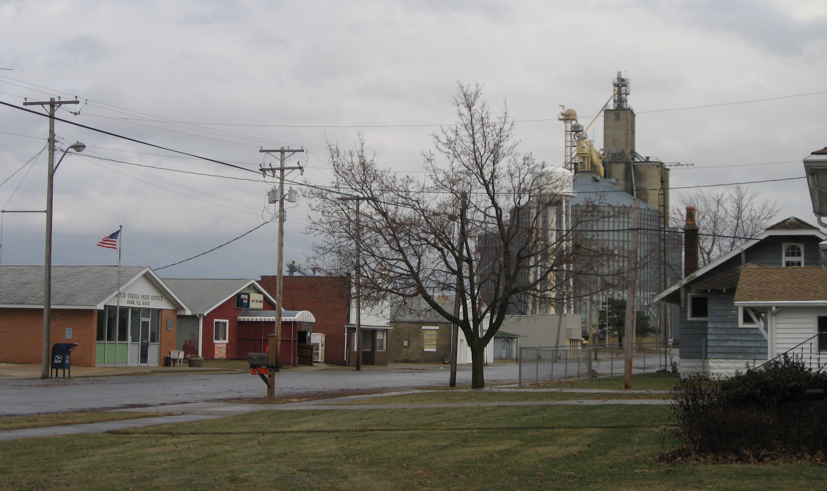 View of Front Street, Hume, Illinois, USA. Taken from about 10 meters away from the intersection of Front Street and West First Street.